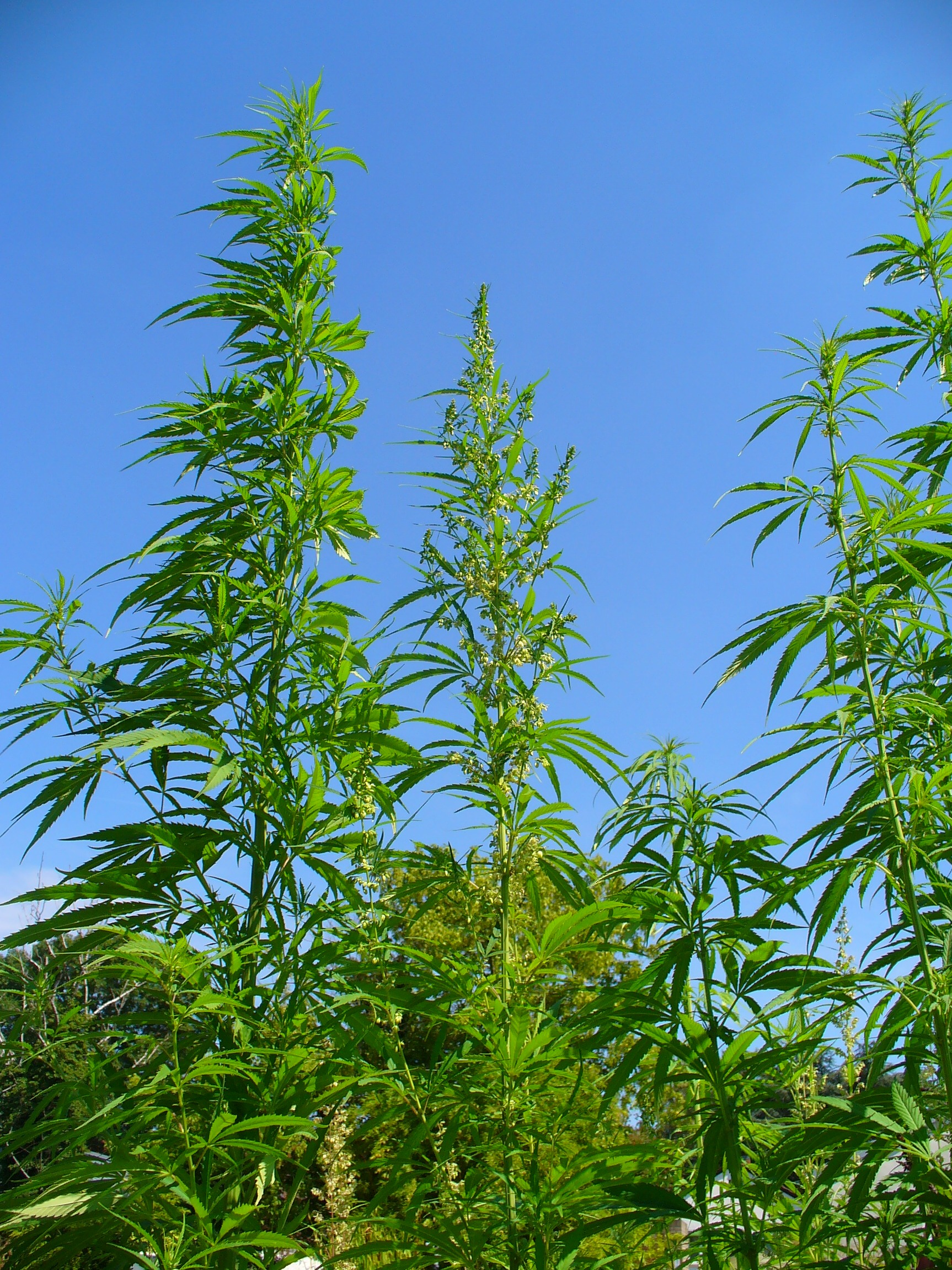 Cannabis sativa, Cannabaceae, Cannabis, habitus; Botanical Garden KIT, Karlsruhe, Germany. The fresh aerial parts of the plant are used in homeopathy as remedy: Cannabis sativa (Cann-s.)